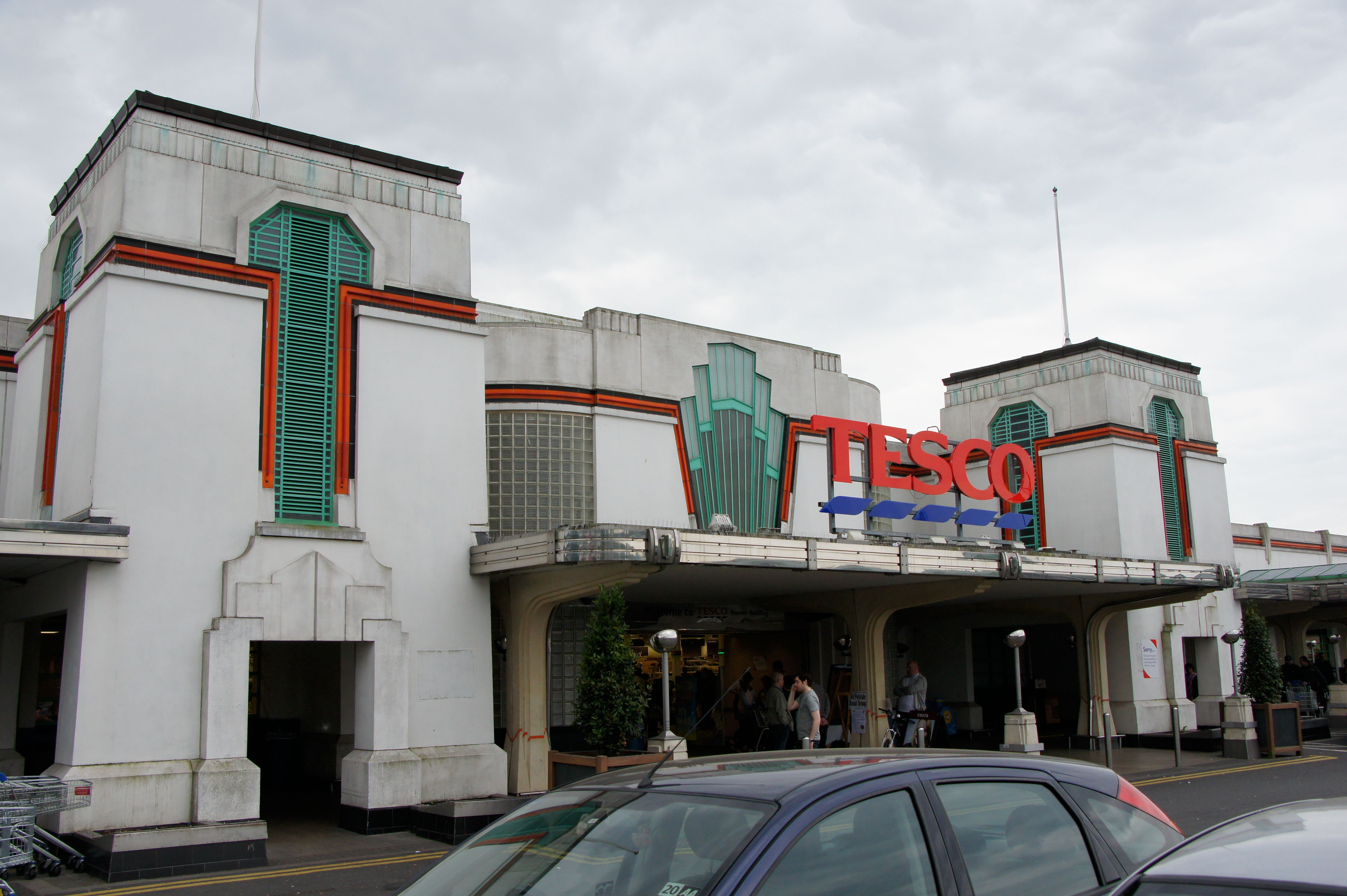 One of the sights of the A40 going in to London, thanks to Tesco for this masterpiece of Art Deco extravagance. Built by Wallis, Gilbert and Partners (who else?!) in 1932, was used by the Hoover Company for manufacturing vacuum cleaners. The canteen on the side (left/west) was added in 1938, and further additions were during the years. Closed in the early 1980s, acquired by Tesco in 1989, Tesco worked with the Grade 2 listing to produce a working "museum" to 1930s architecture, and well they have done too. Two main building were demolished, and the car park is on their sites. The front offices are let by Parkinson Brown, and contain many treasures within the doors, again sympathetically restored and maintained. The building is floodlit in green until 10pm.